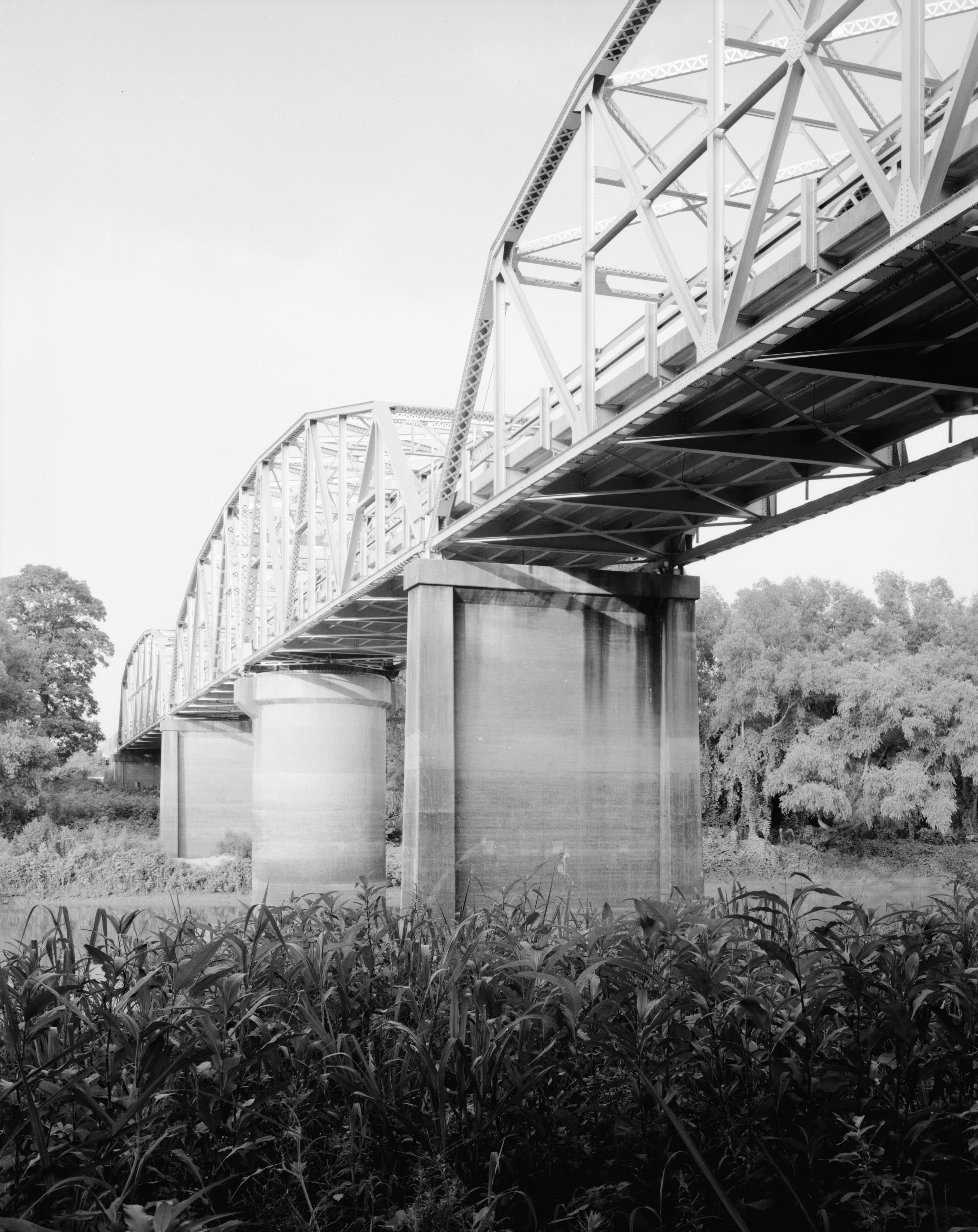 Northern (upstream) side of the St. Francis River Bridge, which carries U.S. Route 70 over the St. Francis River near Madison in St. Francis County, Arkansas, United States. Built in 1933, this swing through truss bridge is listed on the National Register of Historic Places.